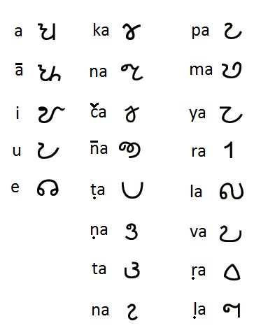 Vatteluttu alphabet of the Tamils